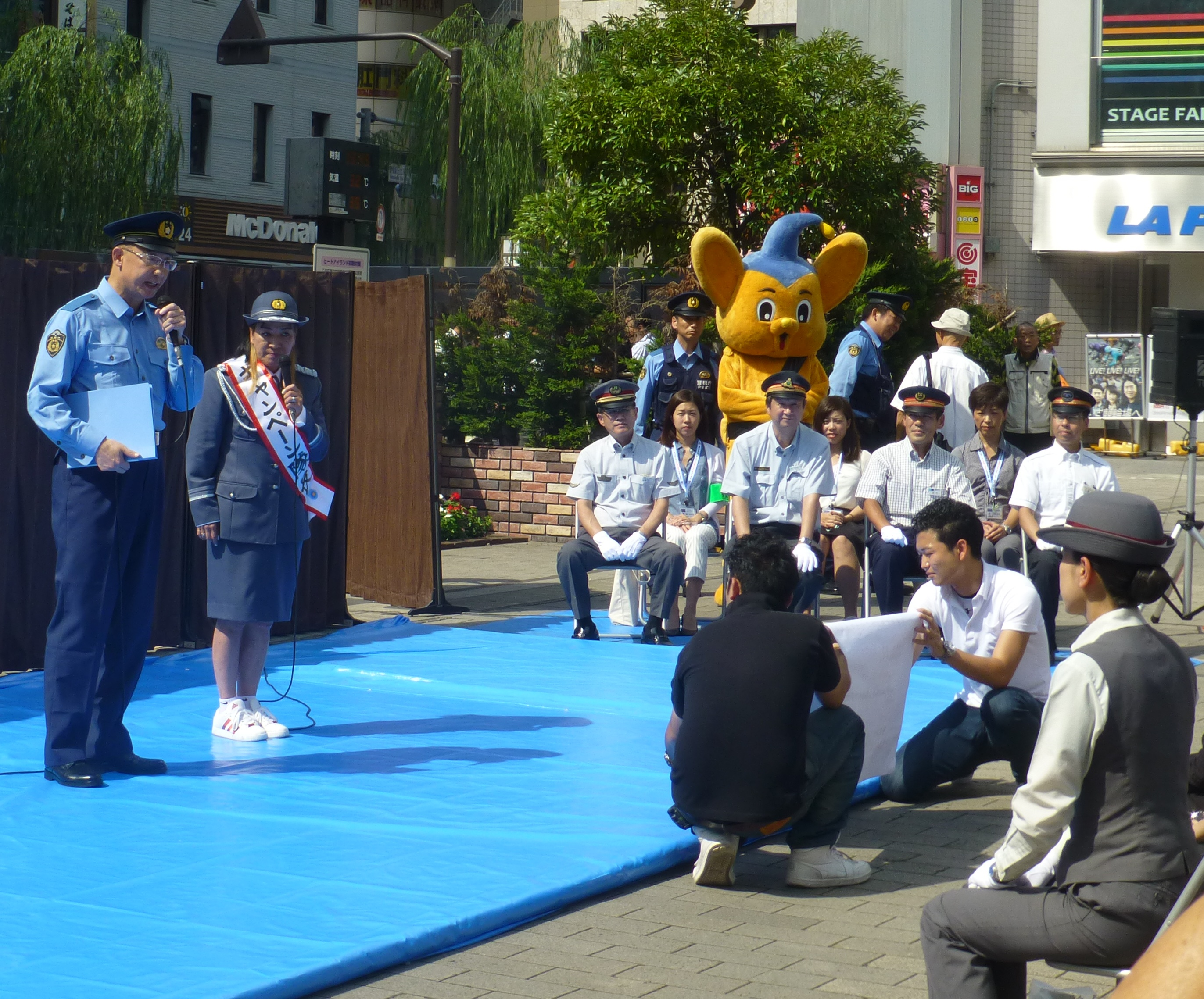 Rimi Yokota (横田 利美 Yokota Rimi) (born July 25, 1961) is a Japanese professional wrestler and later wrestling trainer, who wrestled under the name Jaguar Yokota (ジャガー横田).